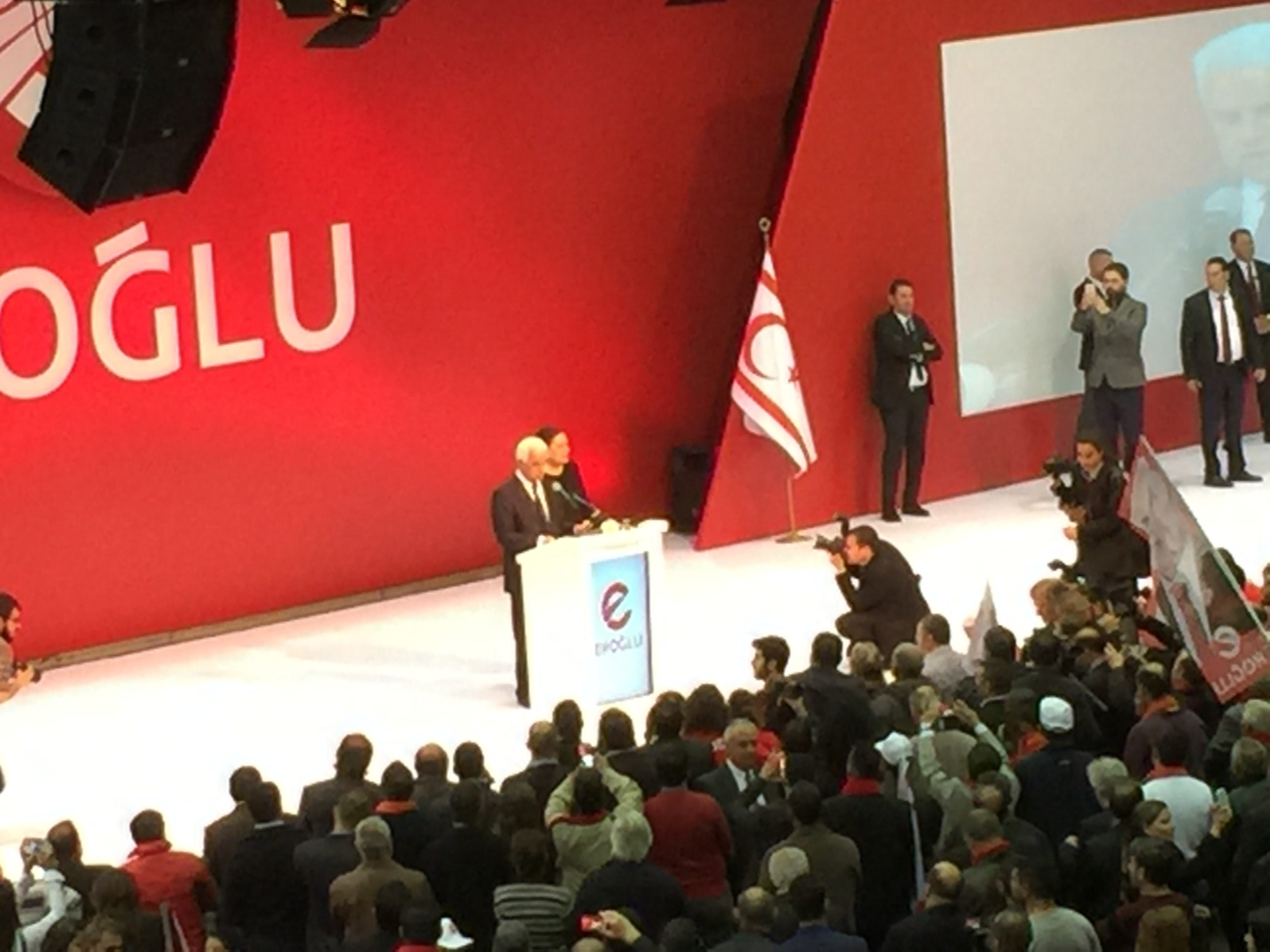 A view from the first rally of Derviş Eroğlu in the Northern Cyprus presidential election of 2015, in Atatürk Sports Hall.